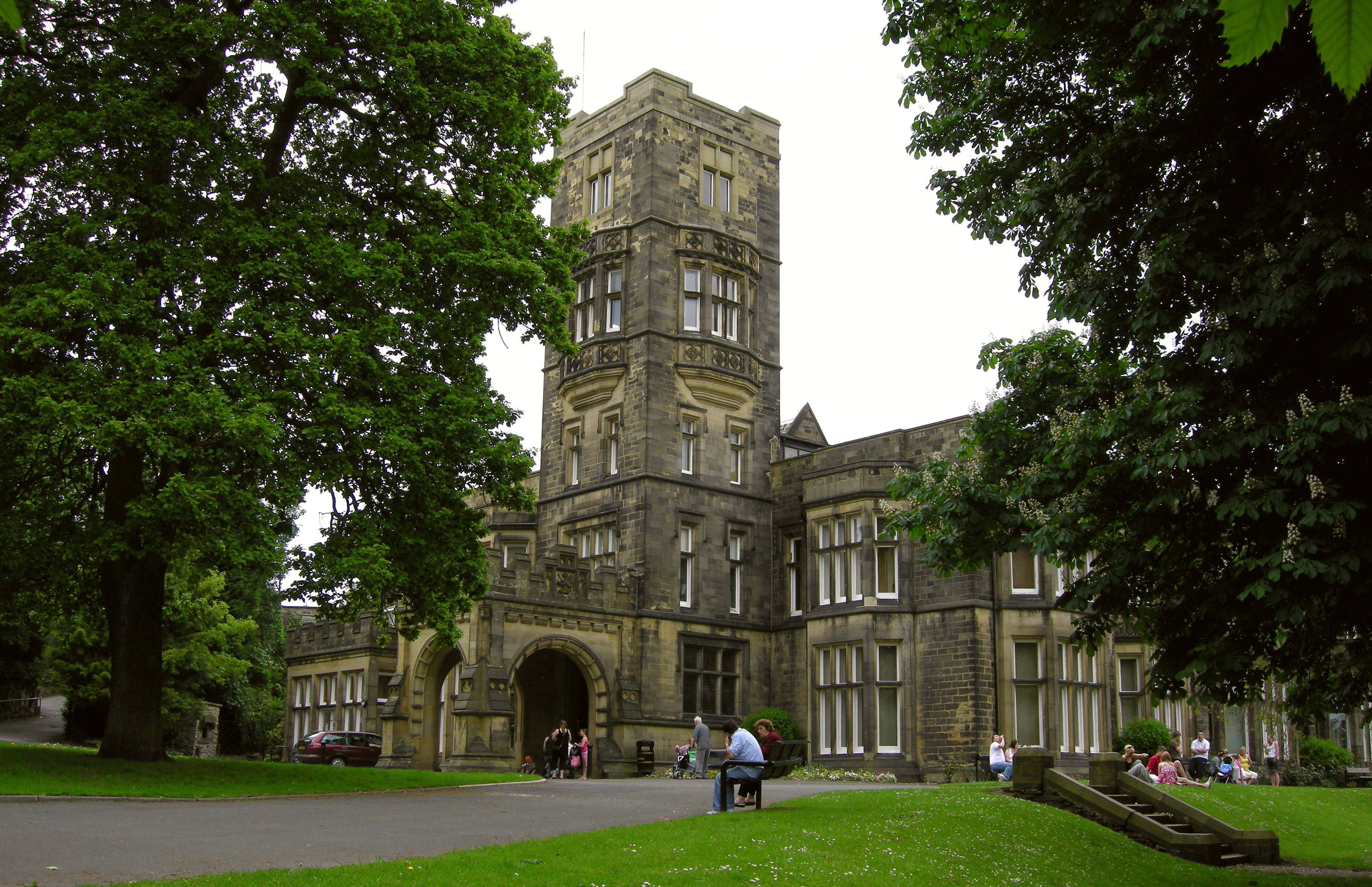 Cliffe Castle Museum, Keighley, West Yorkshire, England.